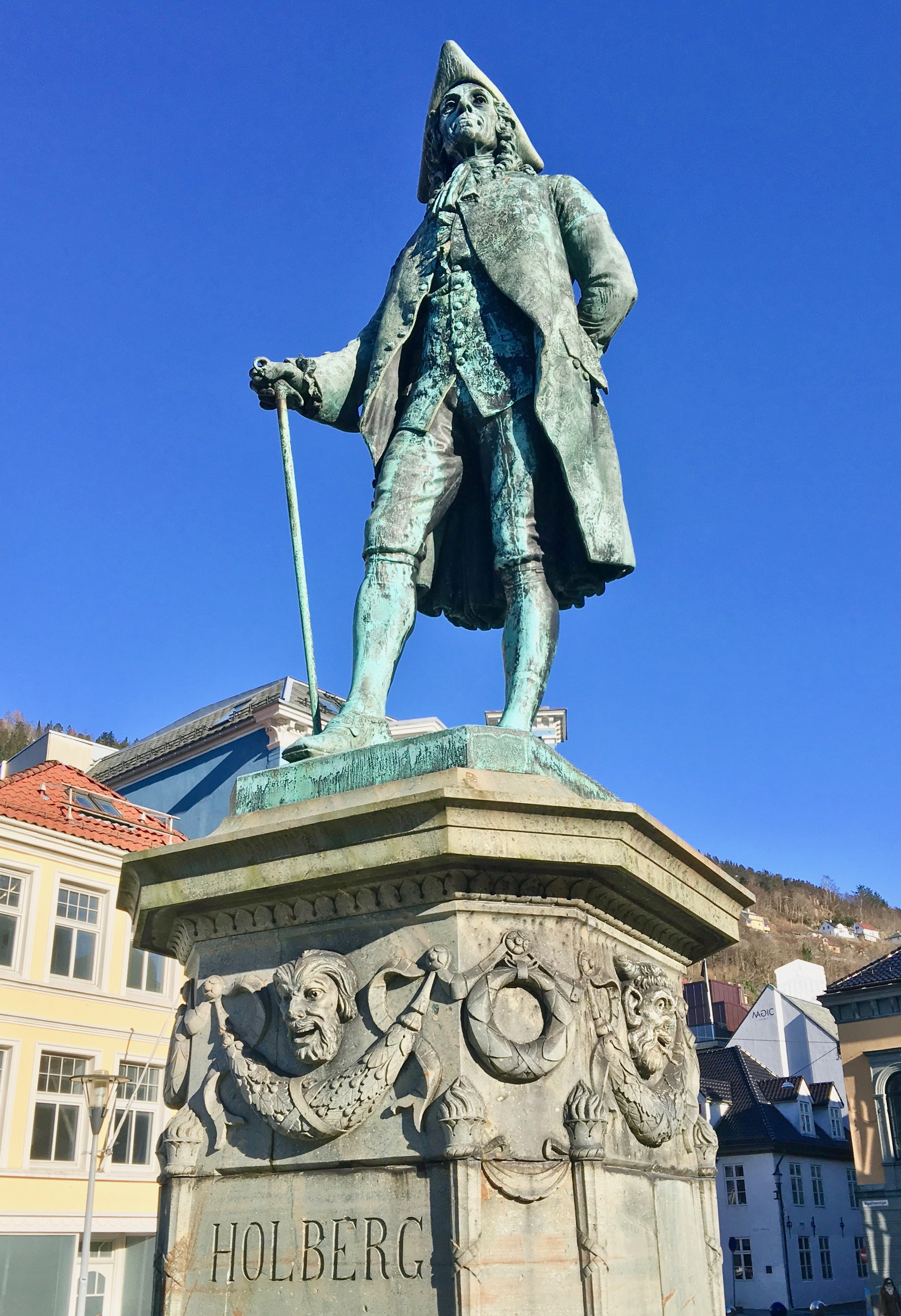 Bronze statue of Norwegian-Danish dramatist, historian, and essayist Ludvig Holberg (1684–1754) by Swedish sculptor John Börjeson (1835–1910) was unveiled in 1884 in Vågsalmenningen, Bergen, Norway. Photo 2018-03-16.